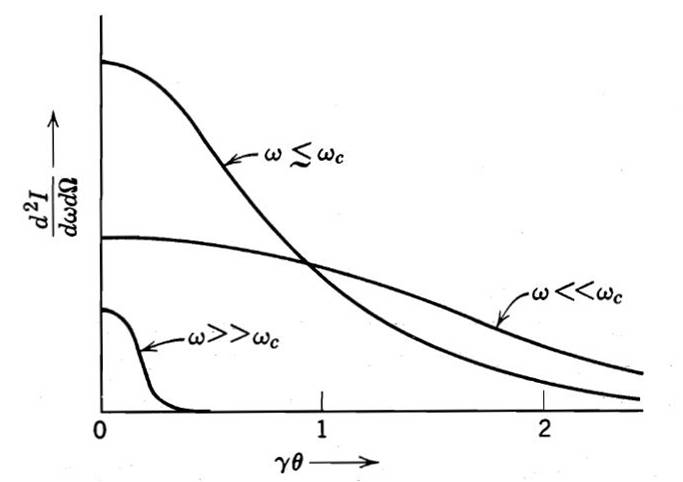 Angular distribution of radiated energy.